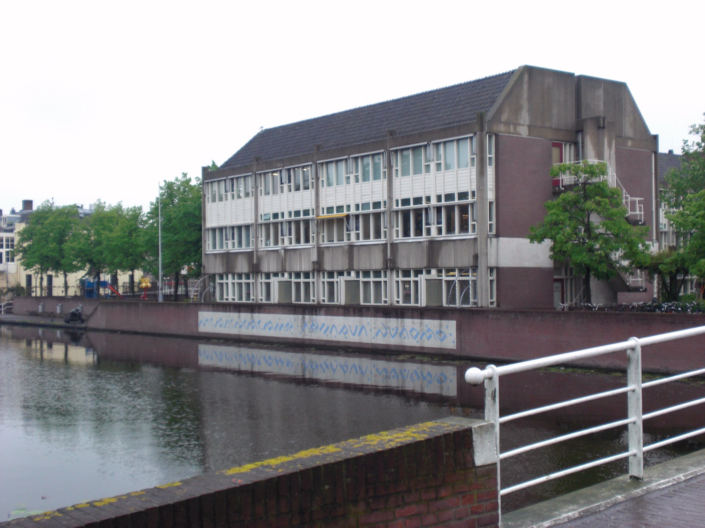 The Royal Netherlands Institute of Southeast Asian and Caribbean Studies in Leiden, The Netherlands. On the wall below the building is a poem in the Buginese language, part of a set of over 100 wall poems in Leiden. Translation from the Dutch below:I have travelled everywhere but nowhere did my eye encounter greater wisdom than here